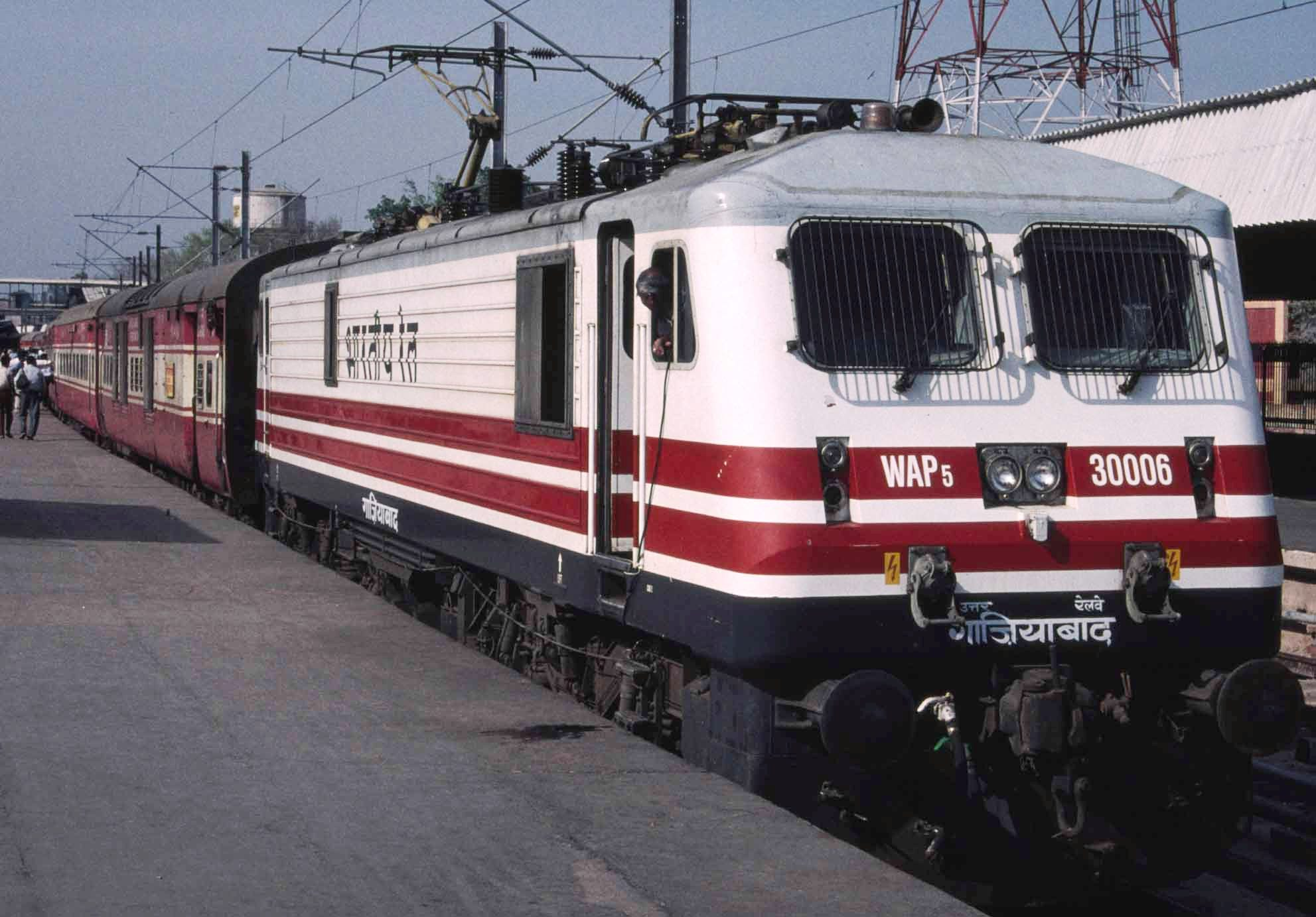 Indian locomotive class WAP-5 (30006)